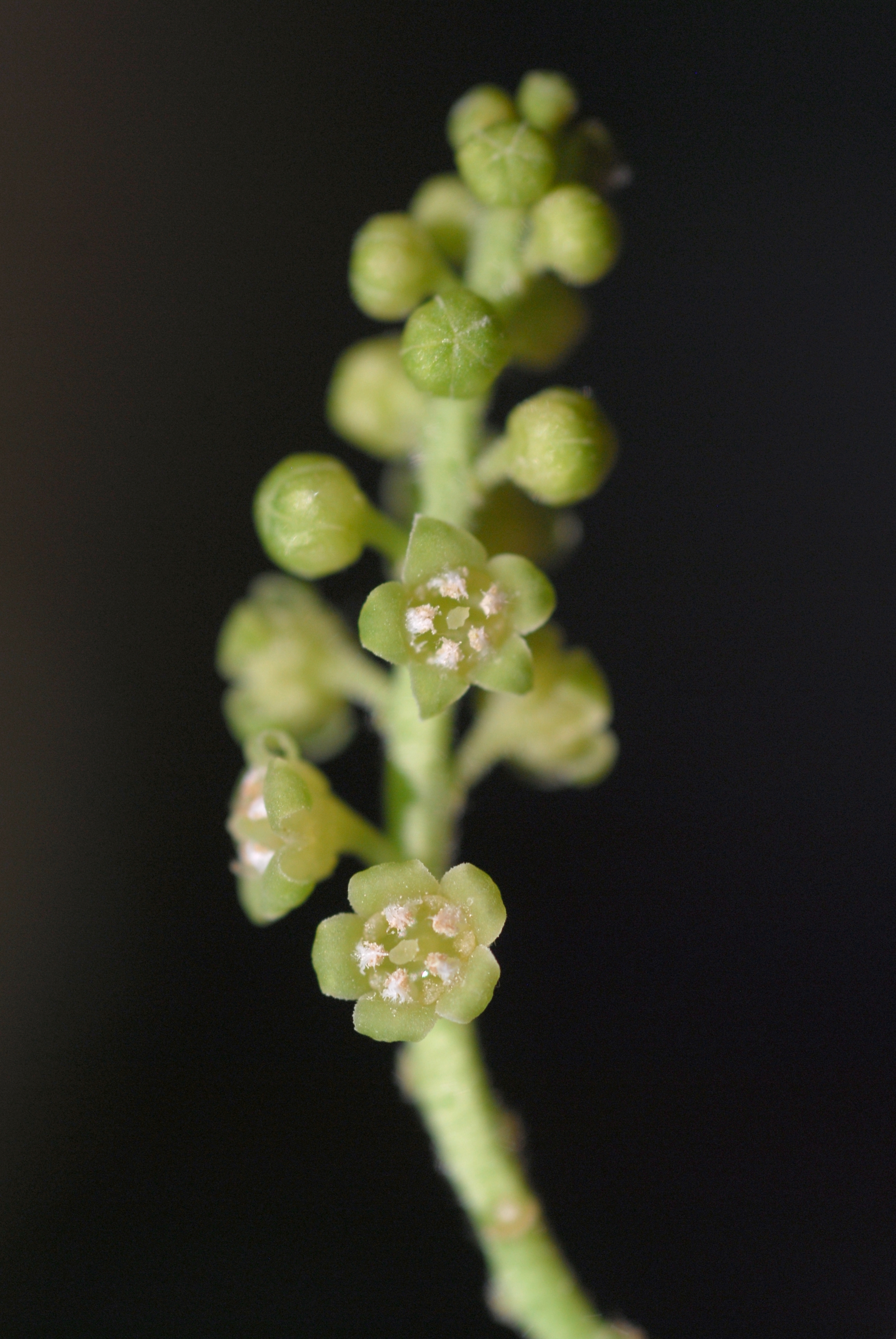 Pyrularia pubera Michx. - buffalo nut